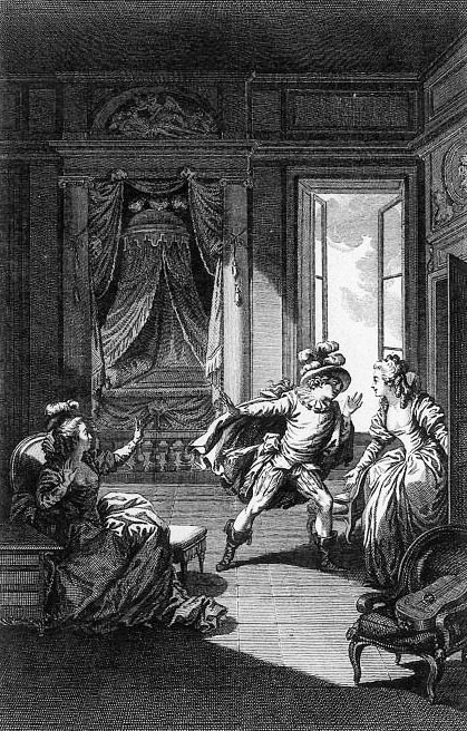 Illustration from La Folle journée ou Le Mariage de Figaro, showing the Countess, Chérubin and Suzanne in Act 2 of the play.